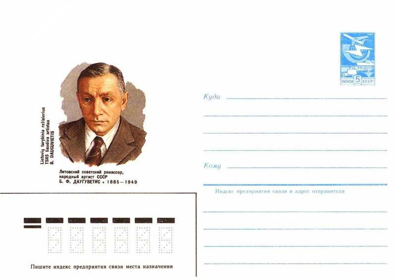 Envelope of the USSR featuring Boris Francevich Dauguvetis.